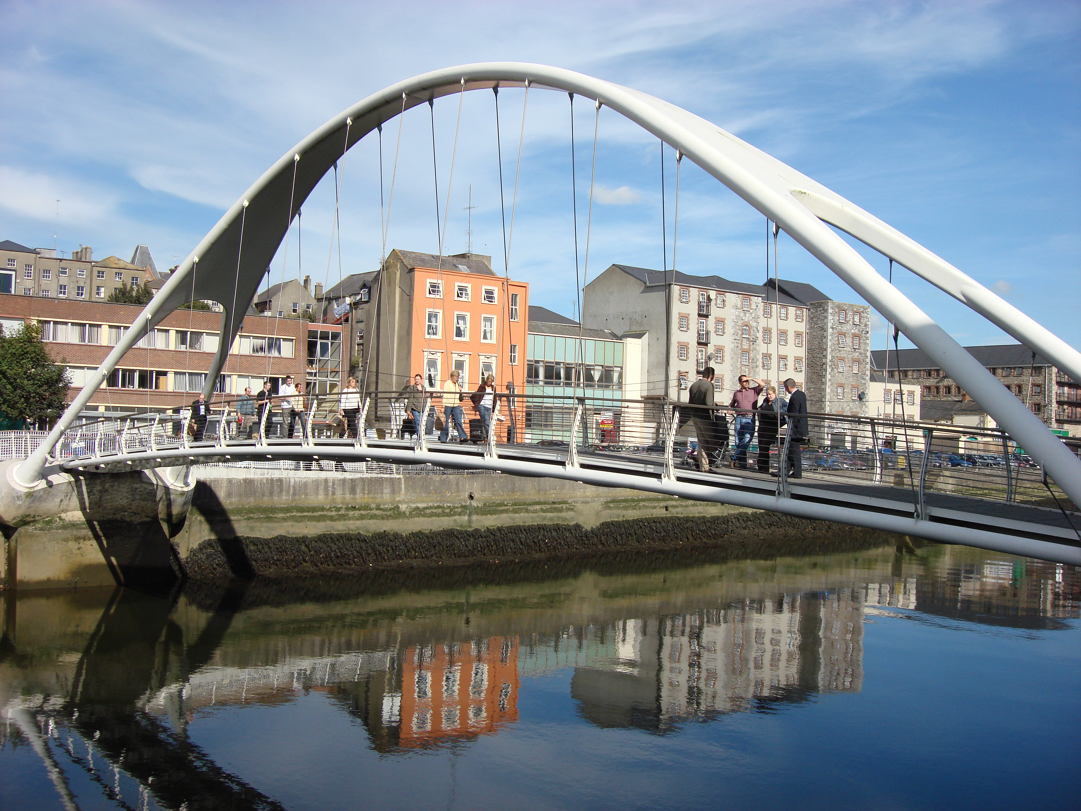 The de Lacy pedestrian bridge in Drogheda, Ireland.